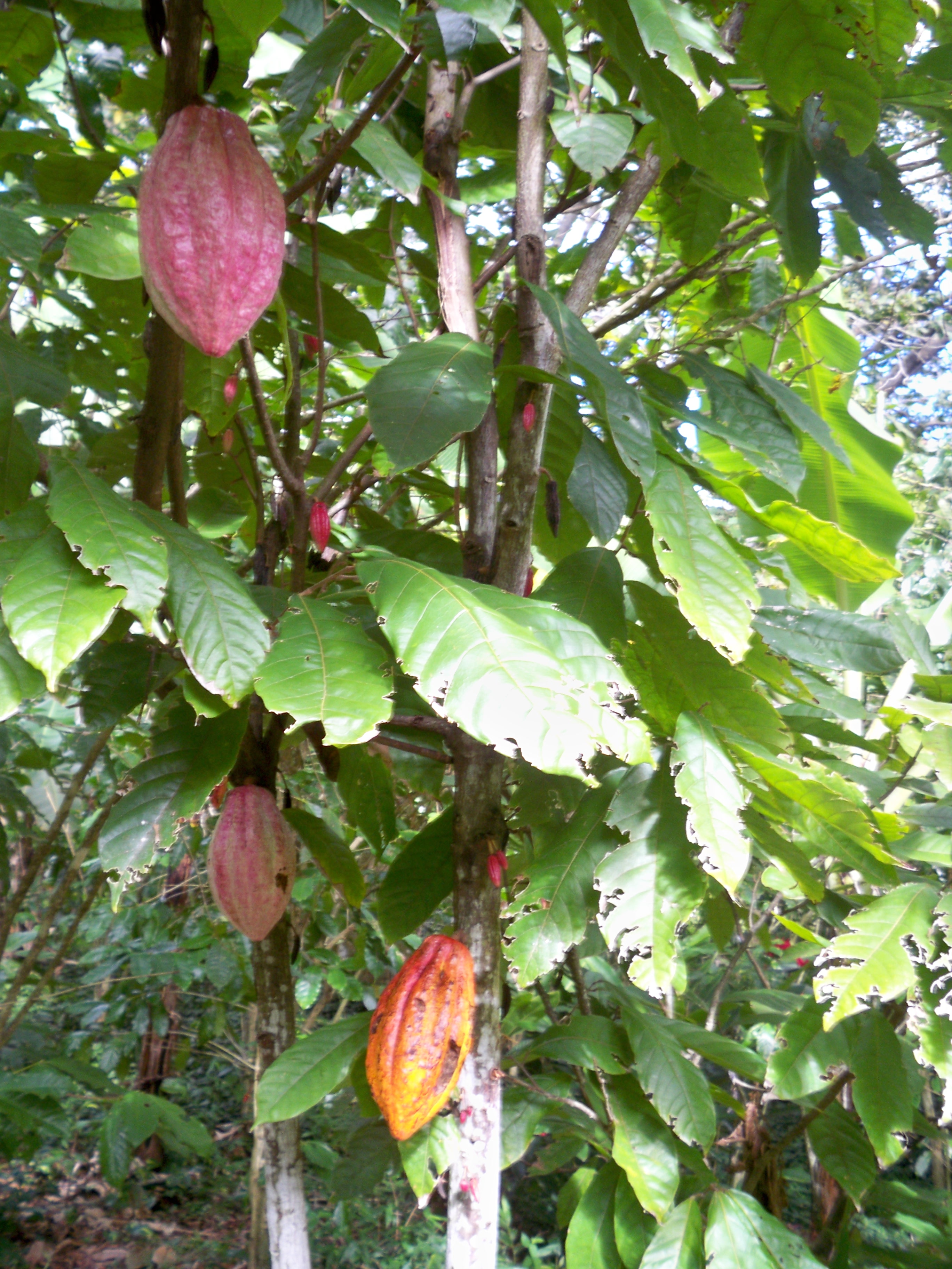 Cacao fruits on a cacao tree